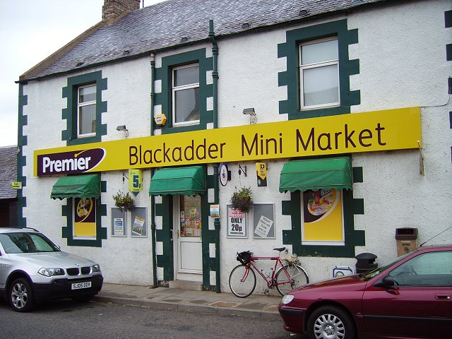 Baldrick runs the turnip counter. Shop in Greenlaw